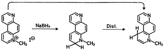 ACD Labs